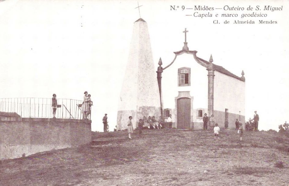 Outeiro de S. Miguel